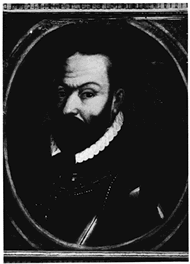 Jan IV van Glymes of Bergen op Zoom